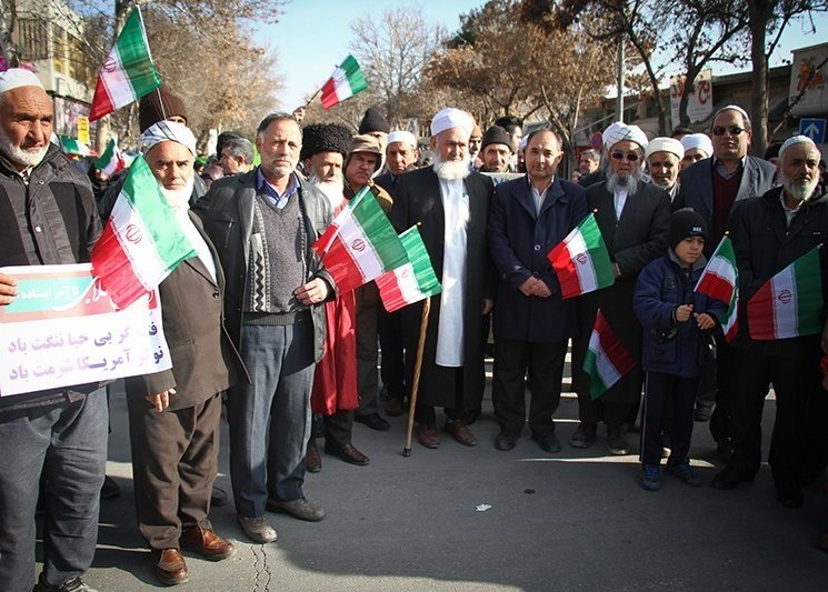 Anniversary of Islamic Revolution in Bojnord- 11 February 2018